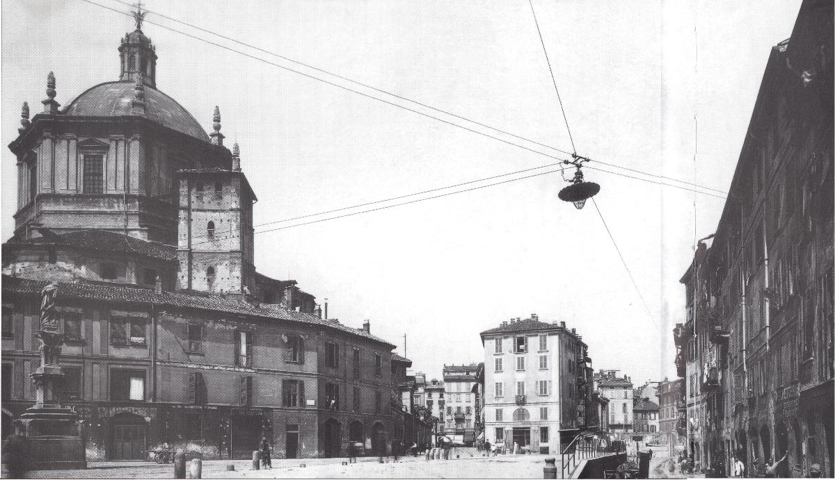 Piazza Vetra, Milan, before 1936